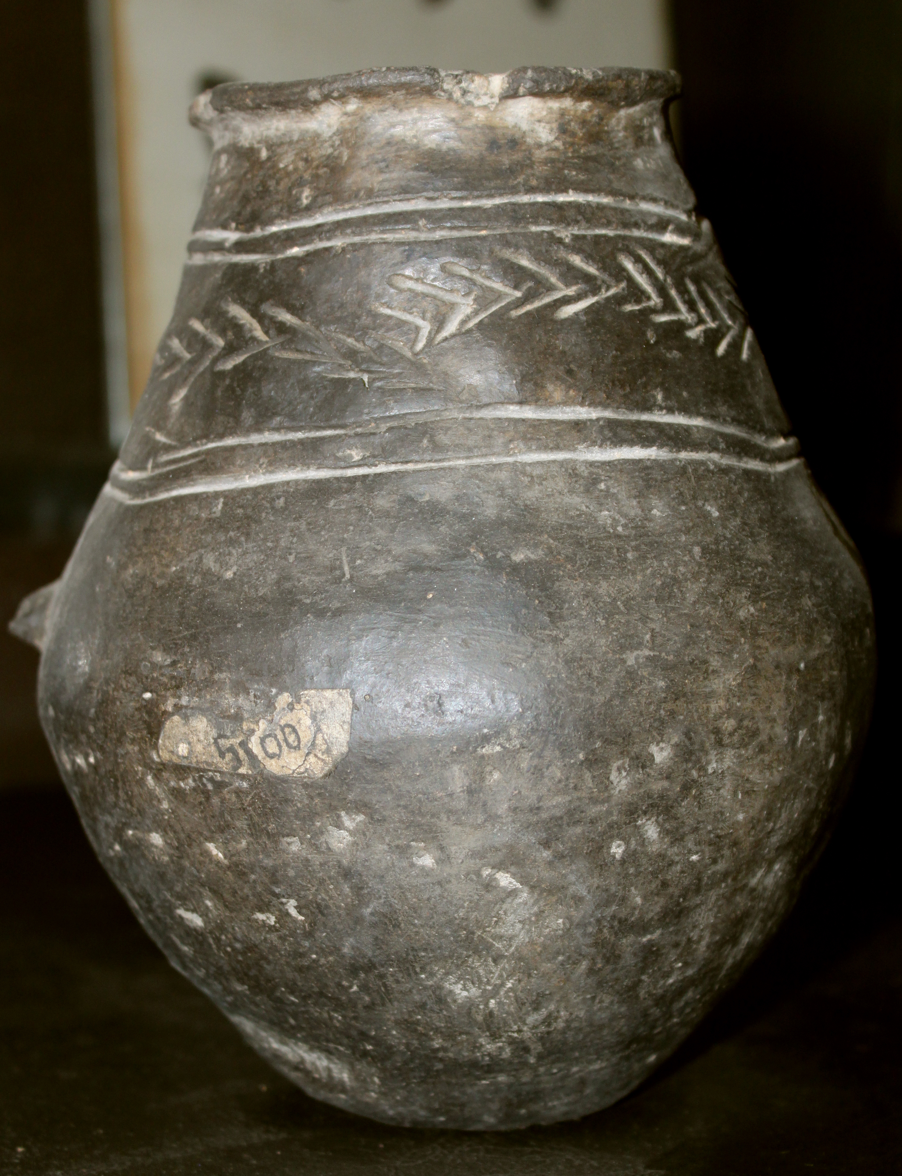 Gil qab, Leylatəpə mədəniyyəti, Ağdam, Gəncə Dövlət Tarix-Diyarşenaslıq Muzeyi